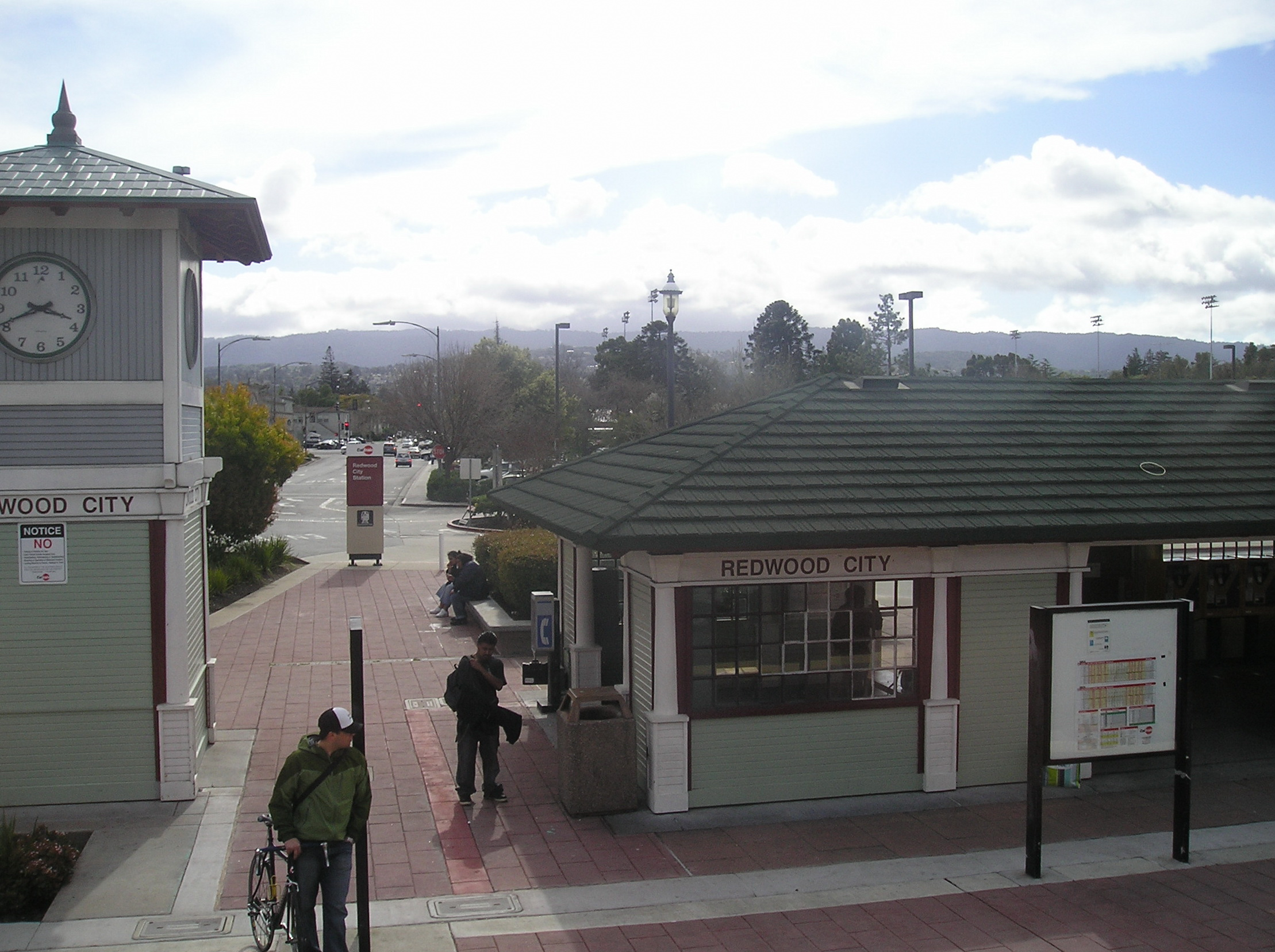 Redwood City Station